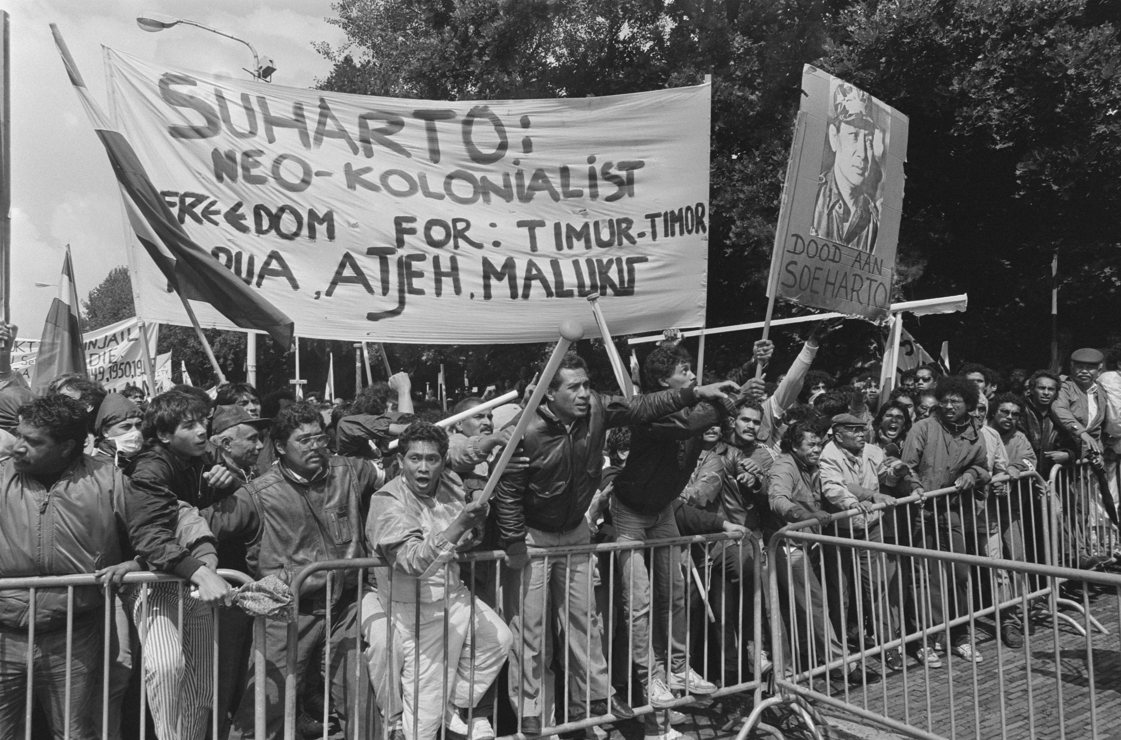 Protestors against the Suharto government's treatment of East Timor The Hague, 1986